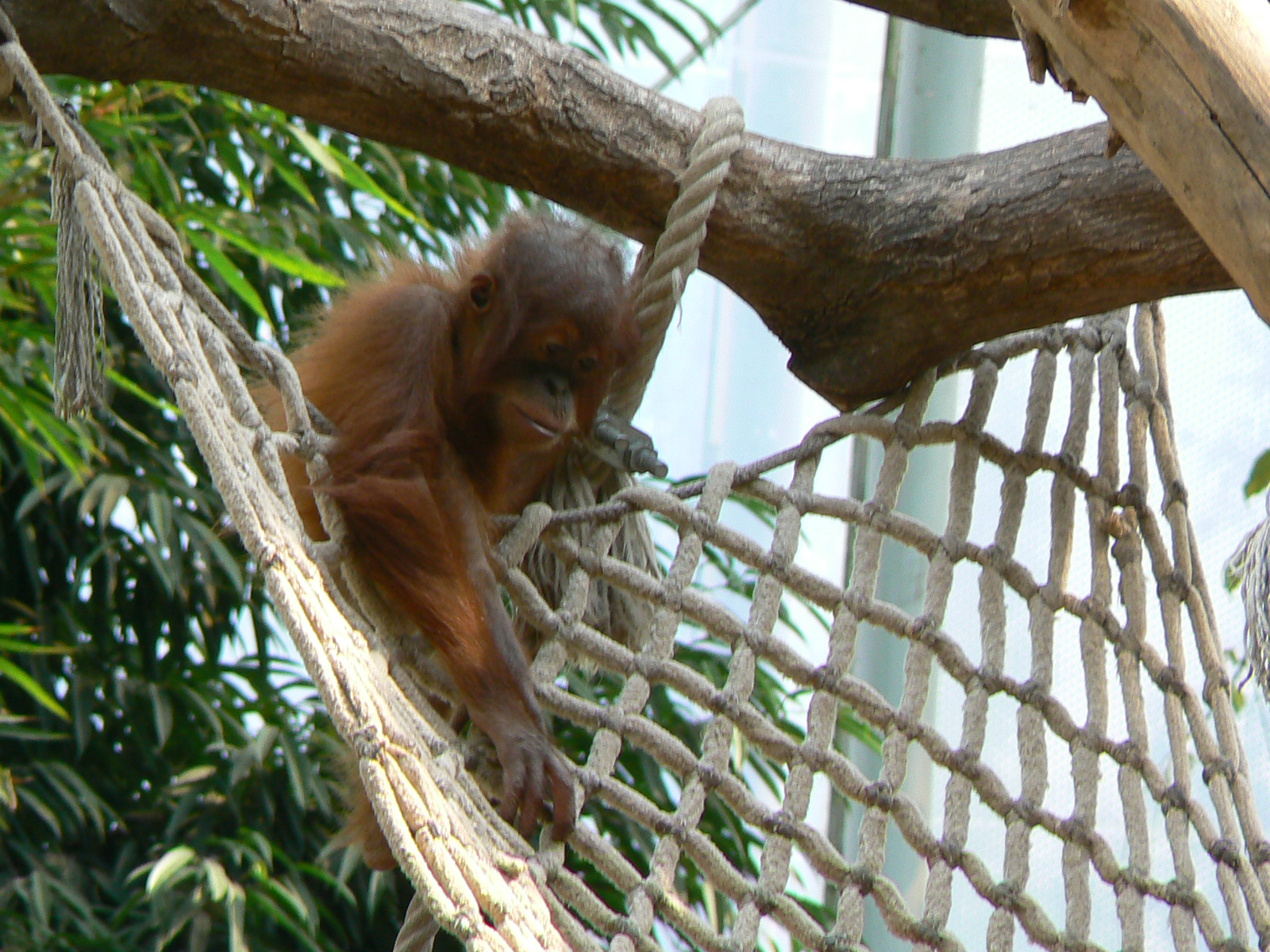 Sumatran Orangutan